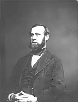 John Paul Verree, US Representative from Pennsylvania